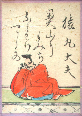 A portrait of Sarumaru Dayū; illustration from an uta-garuta playing card for Hyakunin Isshu, created in the Edo period.